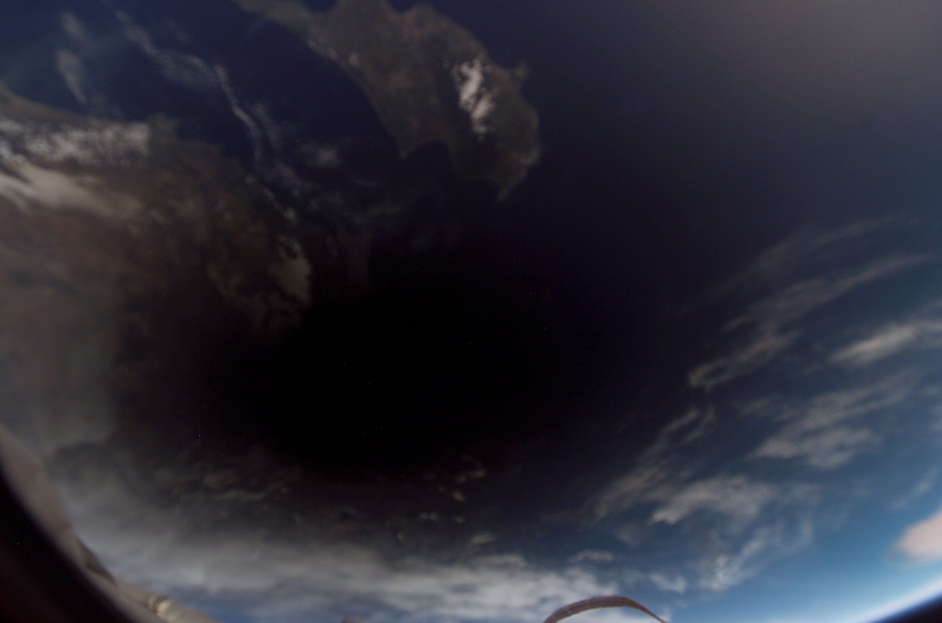 The shadow of the moon falls on Earth as seen from the International Space Station, 230 miles above the planet, during a total solar eclipse at about 4:50 a.m. EST March 29. This digital photo was taken by the Expedition 12 crew, wrapping up a six-month mission on the ISS. Visible near the shadow are portions of Cyprus in the Mediterranean Sea and the coast of Turkey.